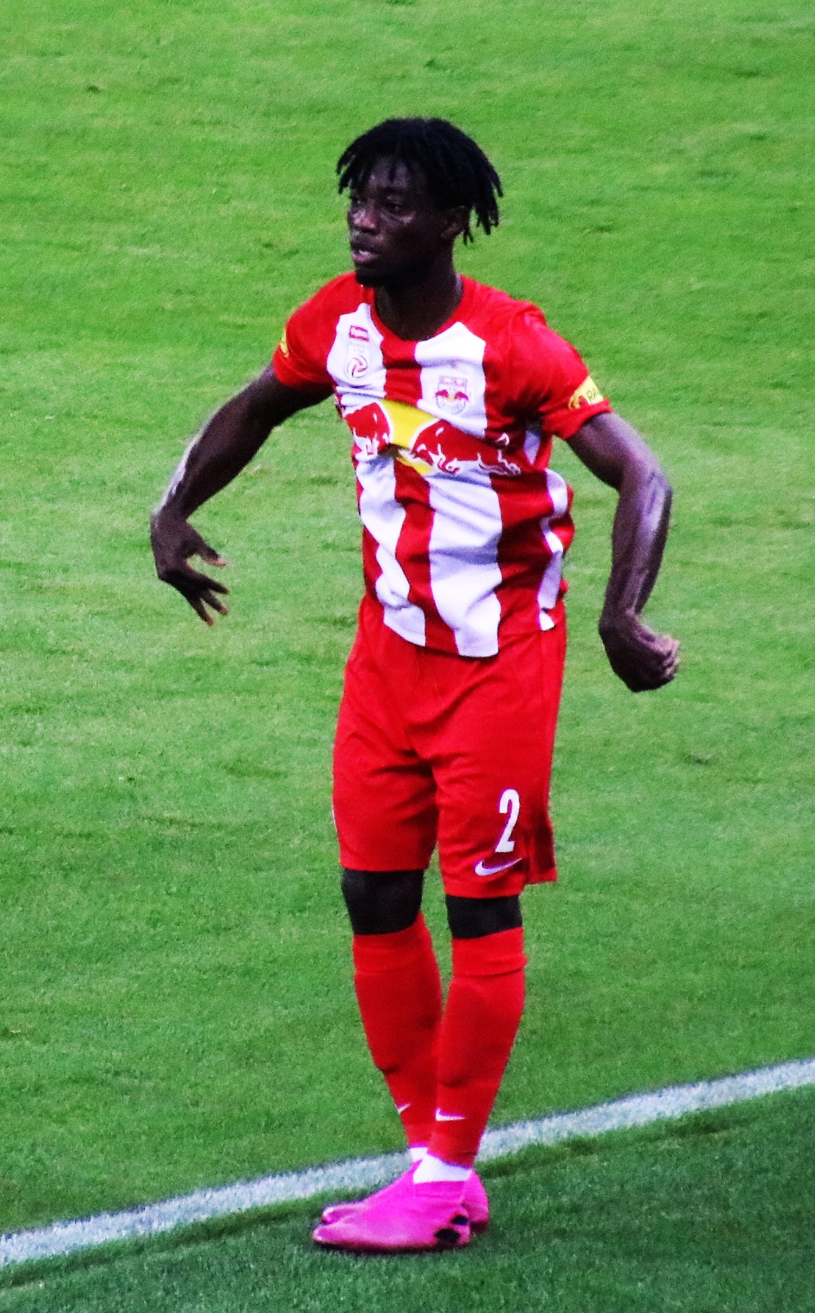 Preseason match